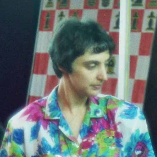 Irina Levitina at the Chess Olympiad 1992 in Manila, Photographer Gerhard Hund.